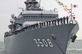 Japan strongly supported the Trafalgar 200 celebrations in the UK. The picture shows JDS Kasima seamen offering a salute to Elizabeth II onboard HMS Endurance during the international fleet review. Based on a picture from the Mobipocket ebook Trafalgar 200 Through the Lens. ISBN 0955300401.